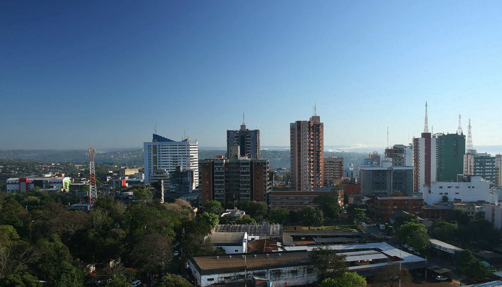 Ciudad del Ester skyline.